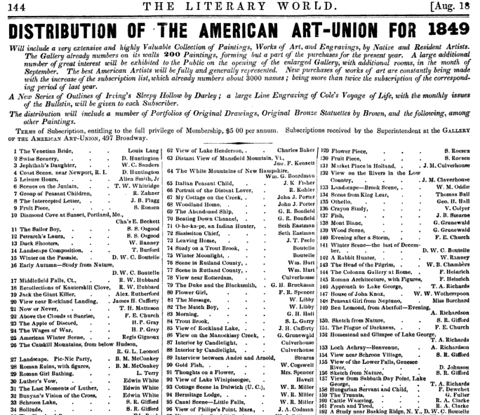 Advertisement for American Art Union, 1849